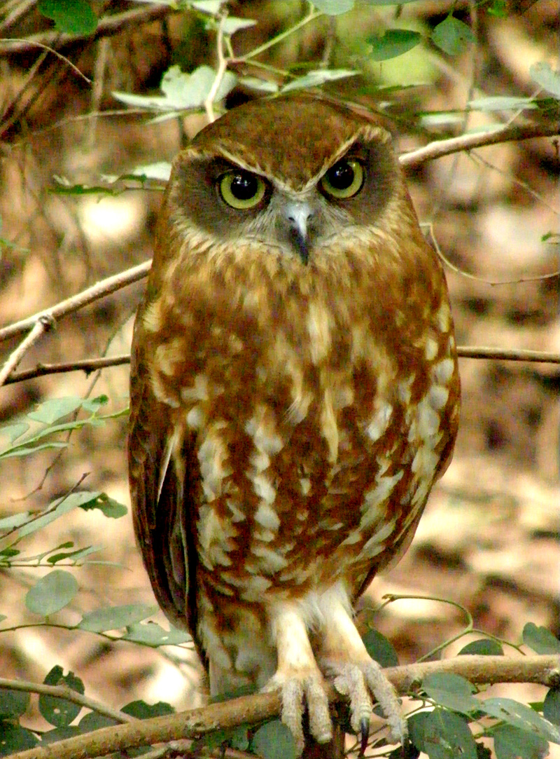 Southern boobook (Ninox boobook boobook) - Downfall Creek Reserve, Brisbane